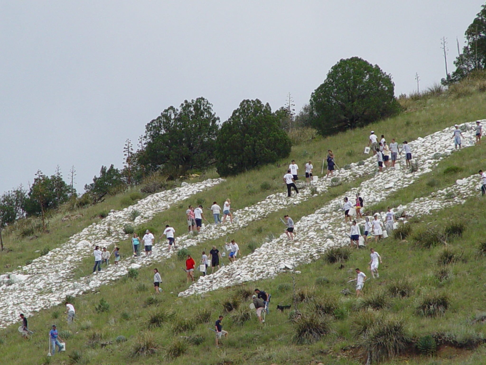 Students at the annual Paint the W event.